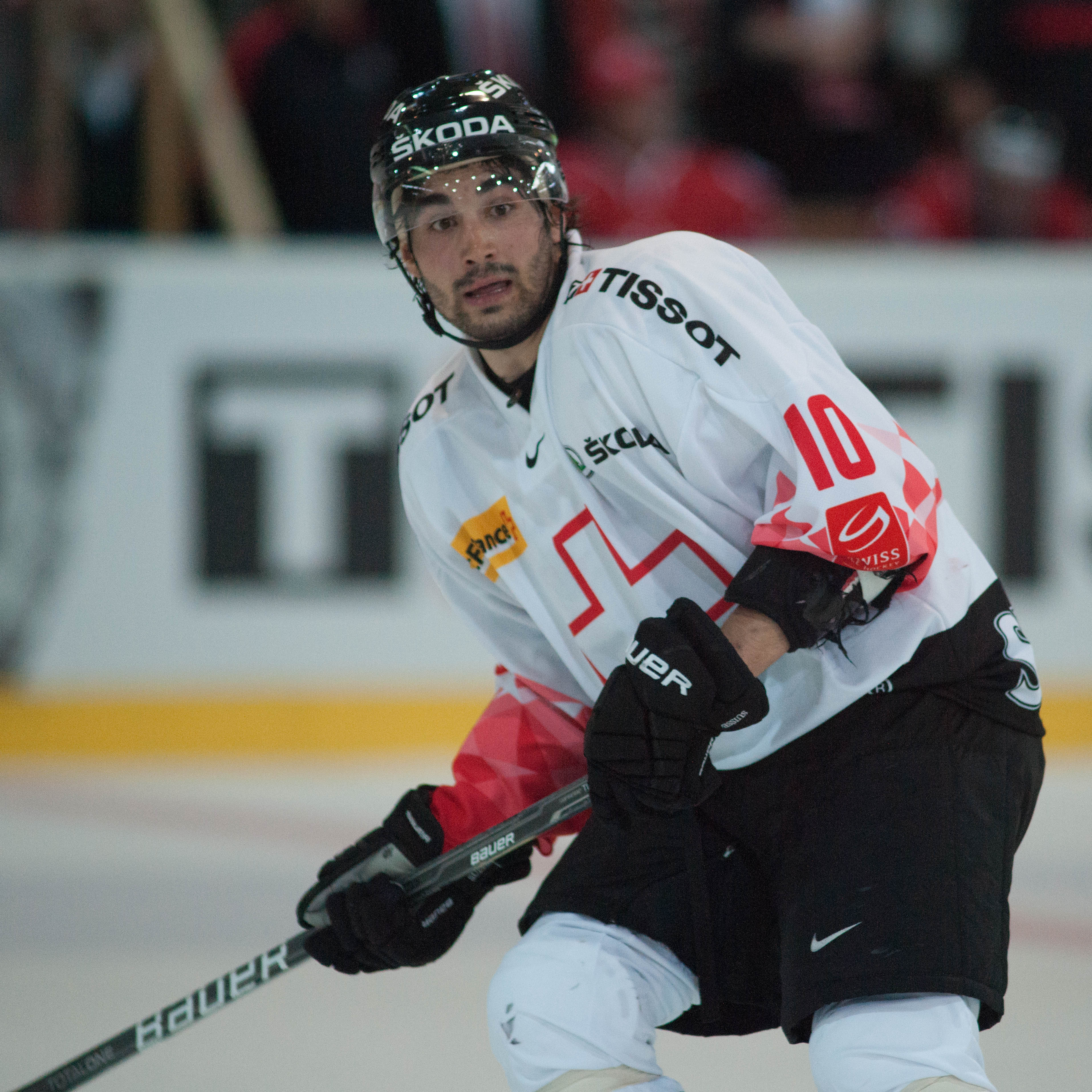 Switzerland vs. Canada, 29th April 2012